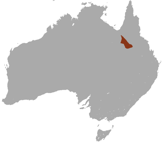 Julia Creek Dunnart (Sminthopsis douglasi) range